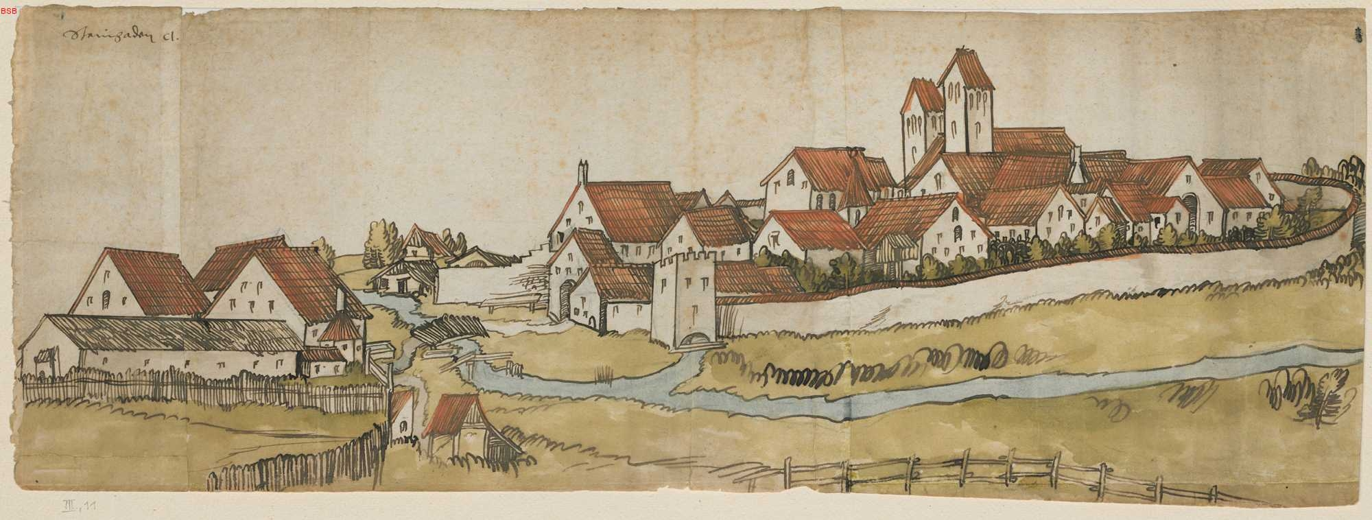 old view of Steingaden, Upper Bavaria, from the East